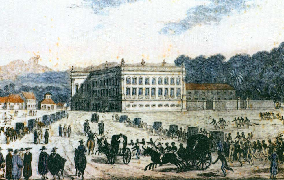 Palácio Conde dos Arcos, 1829